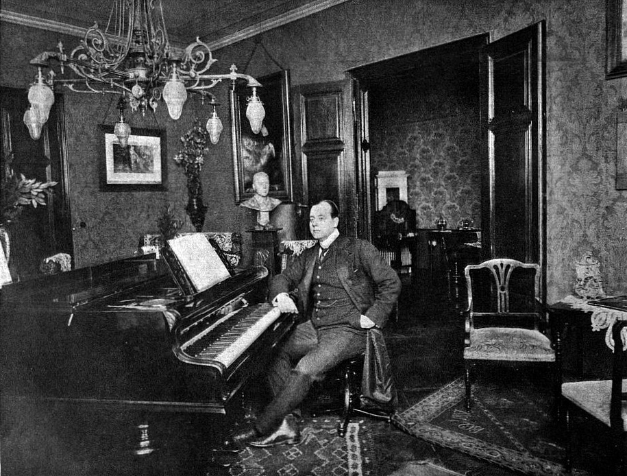 Opera singer Erik Schmedes (1868-1931)